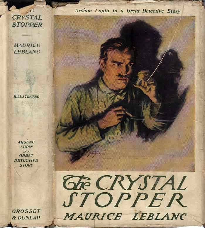 Dalton Stevens' illustrated dustjacket and frontispiece for Maurice Leblanc's novel The Crystal Stopper. New York: Grosset and Dunlap, 1913 (translated by Alexander Teixeira de Mattos).